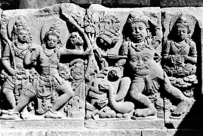 Relief at the temple dedicated to Shiva at the Candi Lara Jonggrang or Prambanan temple complex